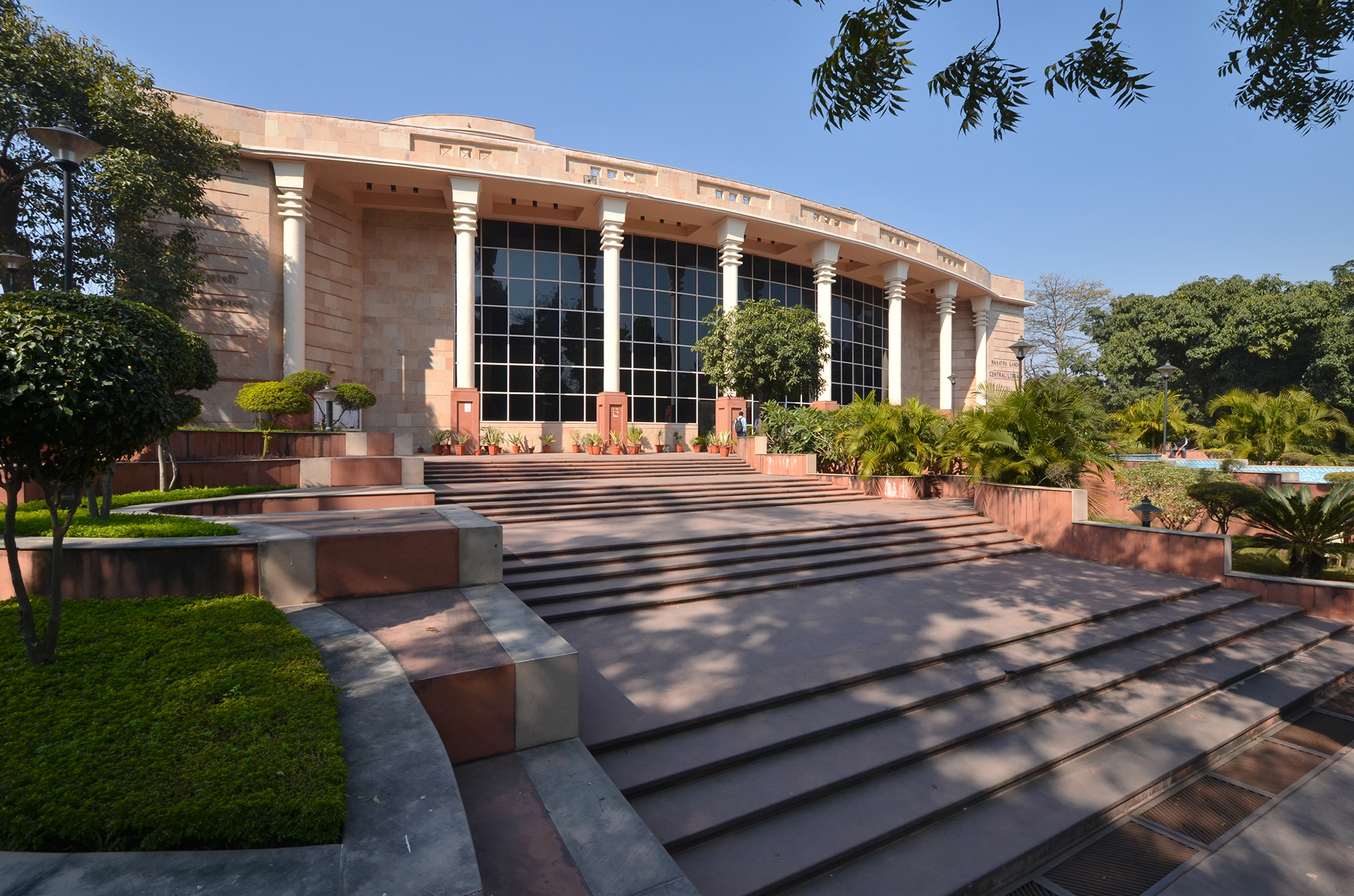 Mahatma Gandhi Central Library, IIT Roorkee by architect C P Kukreja